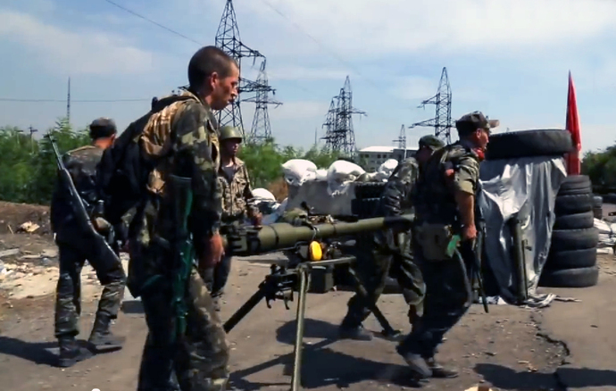 DPR fighters defending Ilovaisk in August 2014.